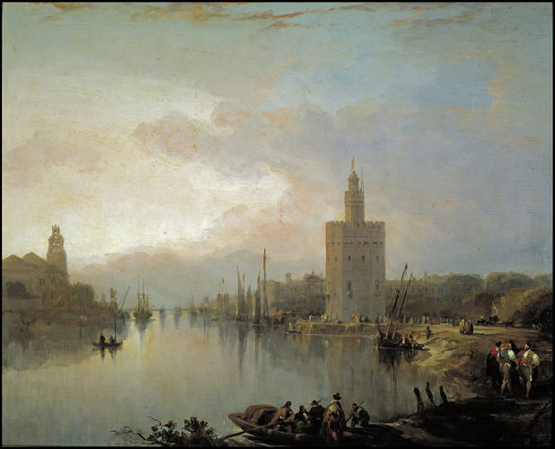 The Guadalquivir and the Golden Tower.